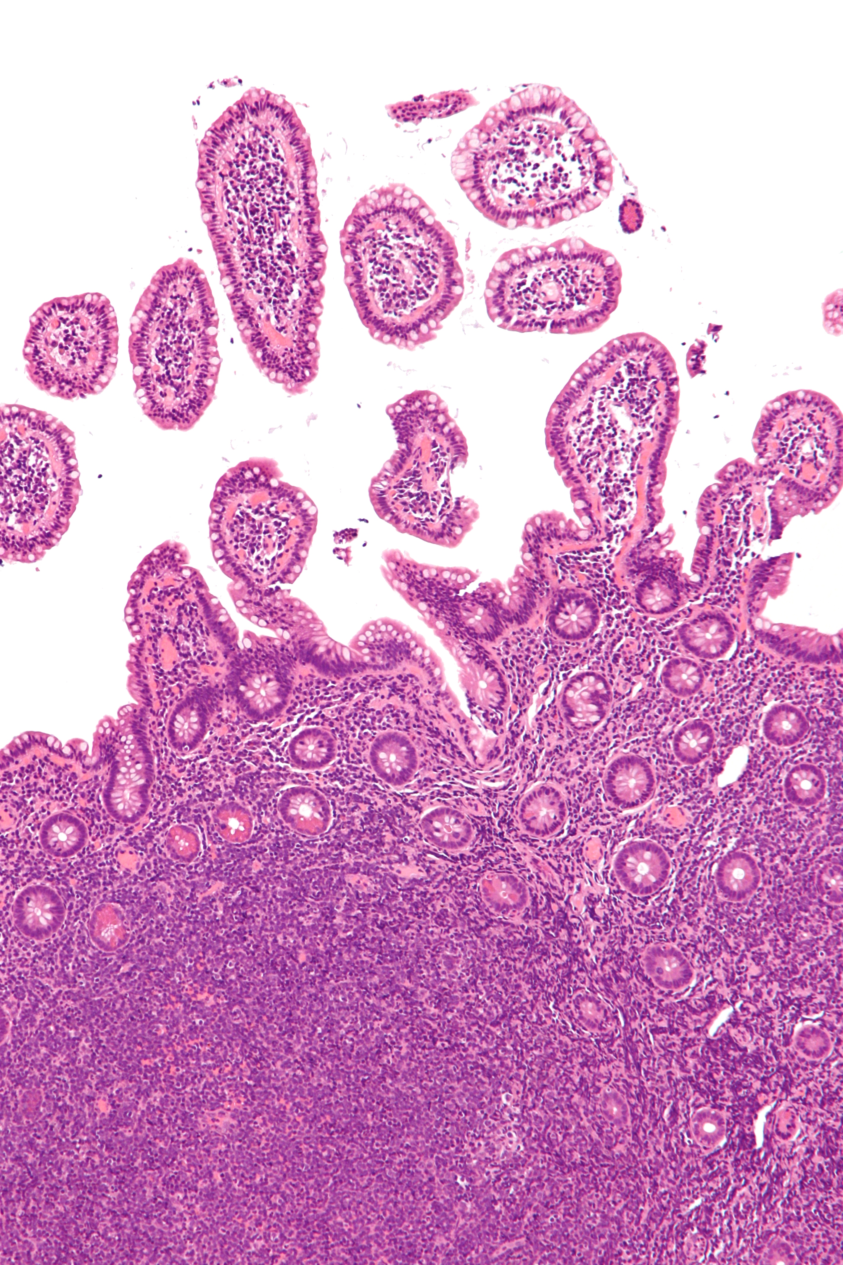 Intermediate magnification micrograph of mantle cell lymphoma of the terminal ileum. Endoscopic biopsy. H&E stain. Histomorphologic features: Monomorphic small lymphoid cells less than twice the size of a resting lymphocyte. Abundant mitoses. Sclerosed blood vessels. Scattered epithelioid histiocytes. Immunohistochemical staining: Positive: Cyclin D1, CD5, CD43, CD20, CD45. Negative: CD23. Molecular features: t(11;14)(q13;q32). CCND1/IGHG1 fusion gene.[1] E Related images Low mag. Intermed. mag. Low mag. - cyclin D1. Intermed. mag. - cyclin D1. References ↑ URL: Accessed on: 18 August 2010.